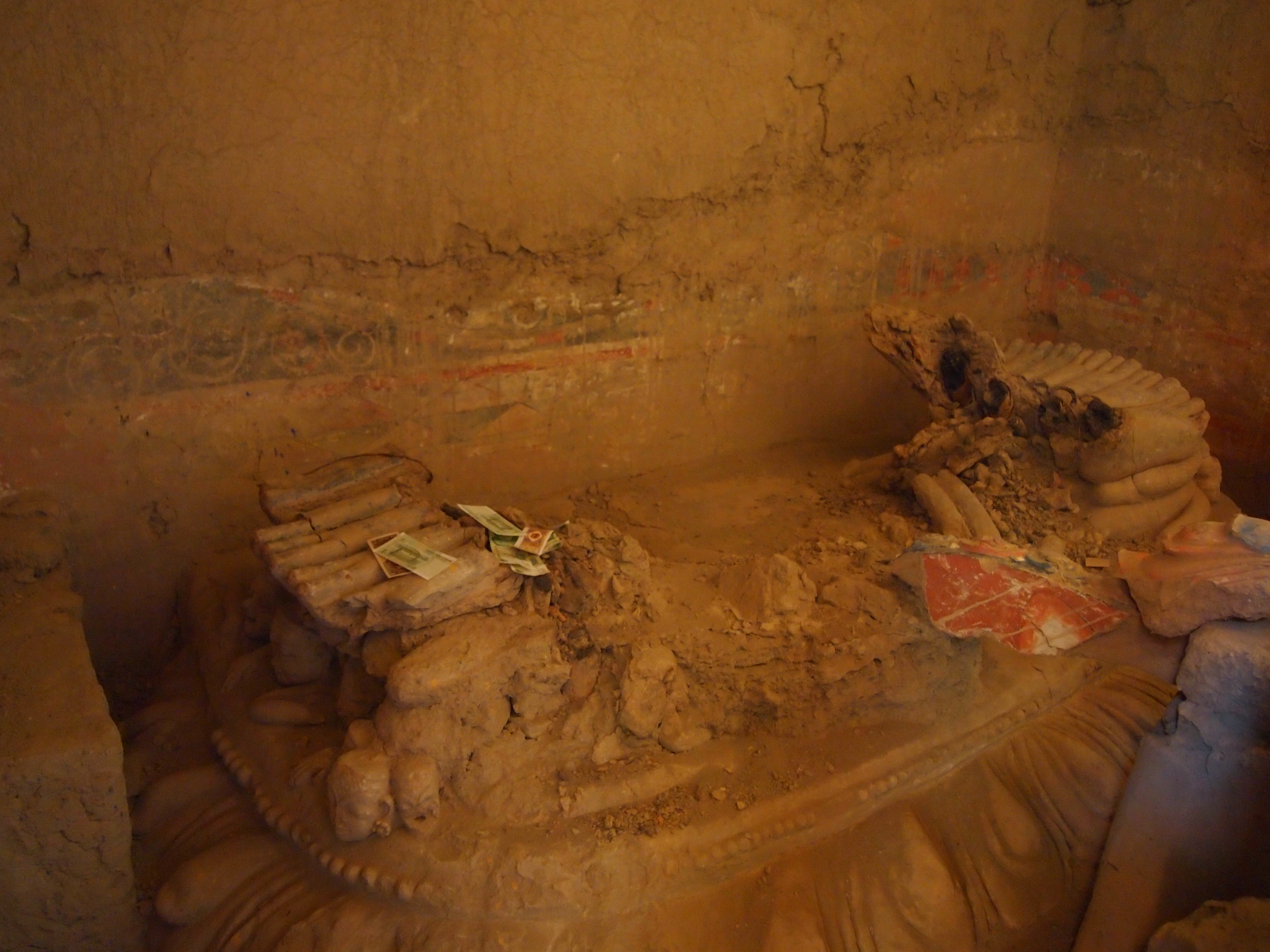 被文革破壞的佛像 damaged buddhist statues because of Cultural Revolution 托林寺 Tuolin temple